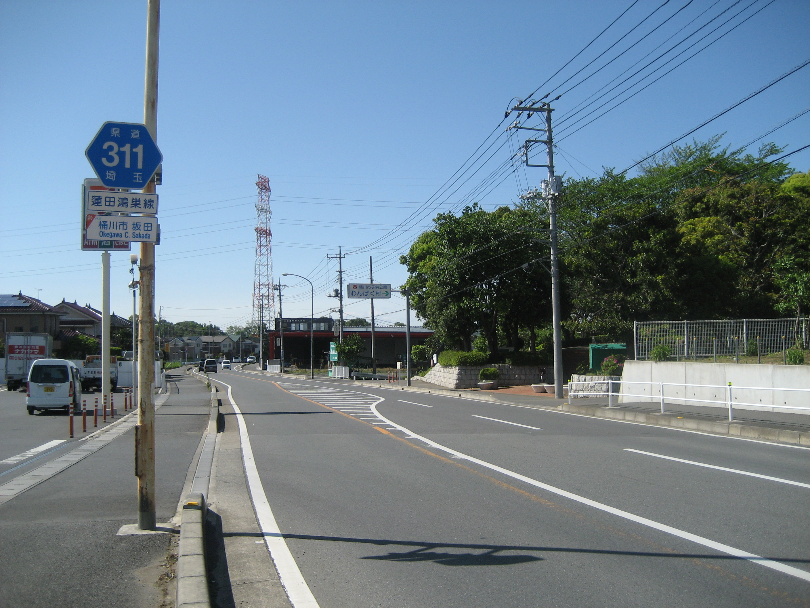 The Saitama Prefectural Road Route 311 in Okegawa City